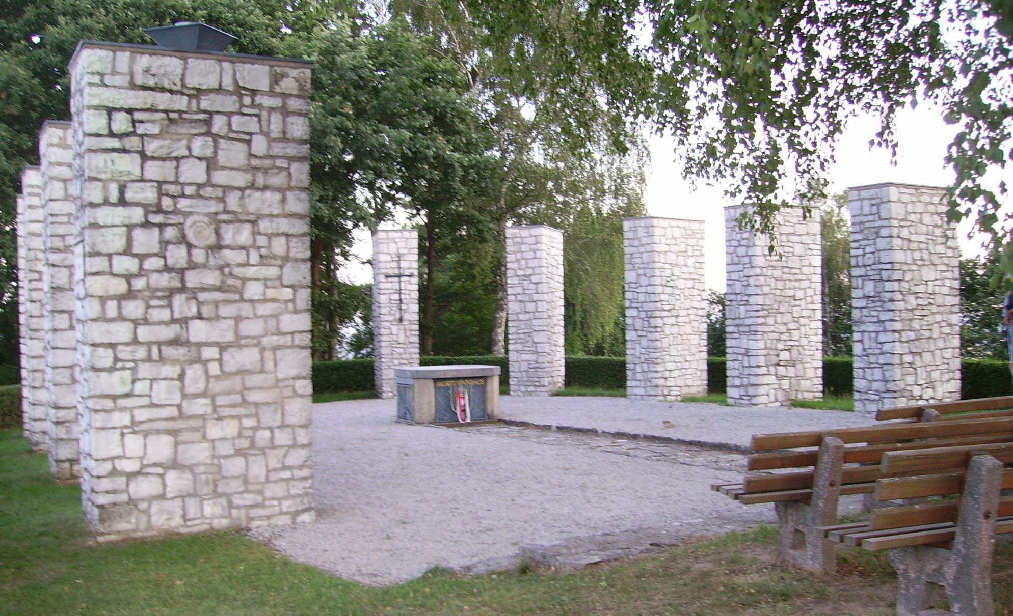 Melkendorf, Germany